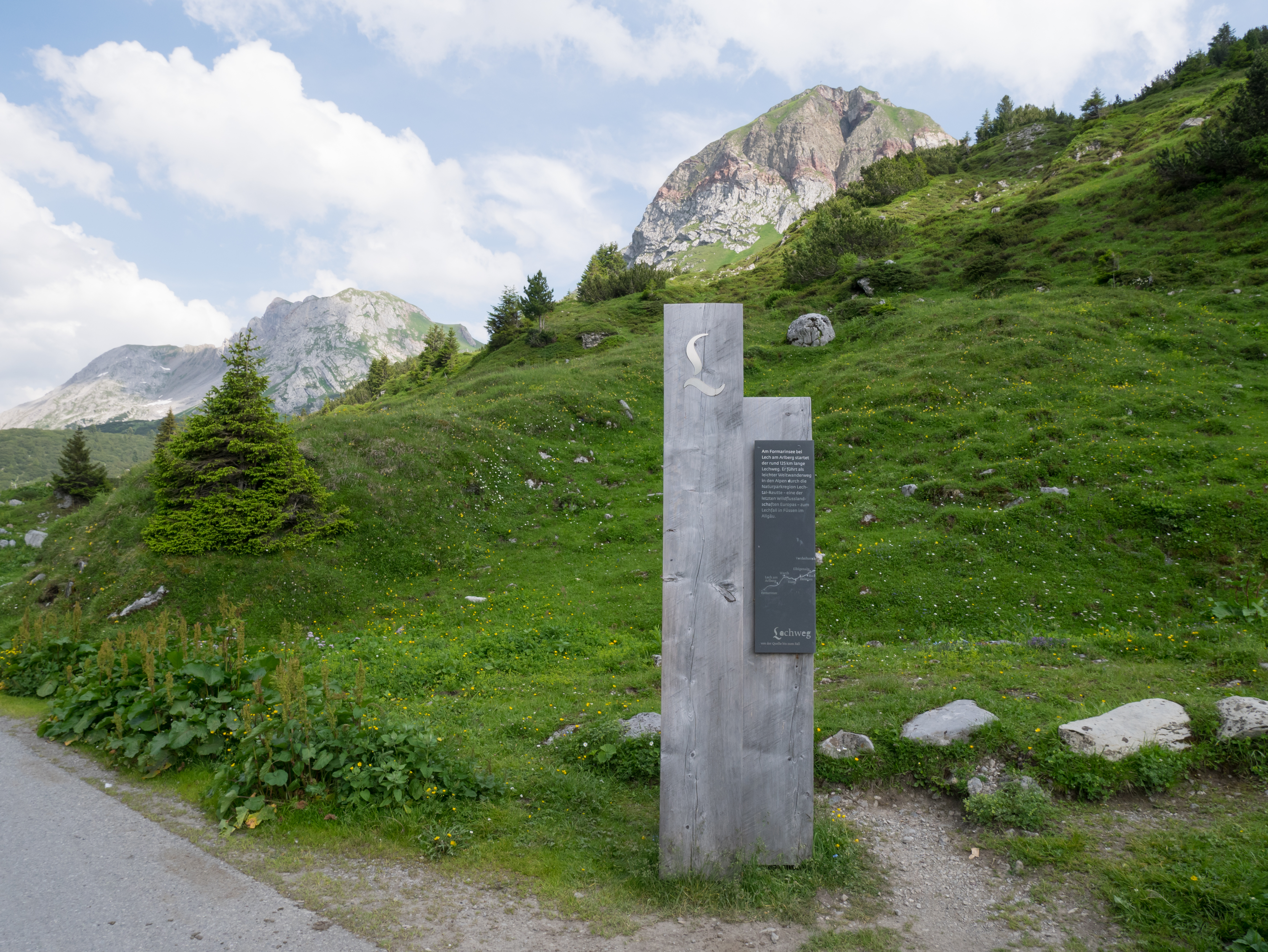 Start of the Lechweg hiking trail at Formarinsee. Vorarlberg, Austria